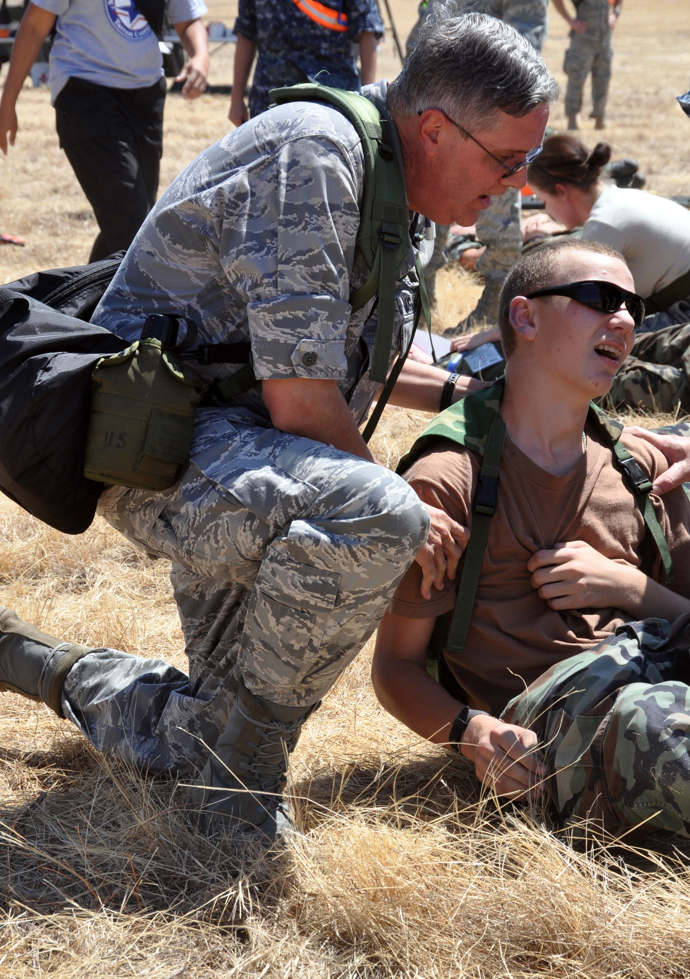 Colonel Richard Walters, commander 301st MDS, left, evaluates a simulated casualty, played by a Civil Air Patrol cadet, in the field during the joint Mass Casualty Exercise held at the Army Reserve Center, Fort Worth September 10 and 11. Medical personnel from the 301st MDS attended the exercise held September 10 and 11. CAP cadets acted as injured personnel during the two day exercise which pulled together military and civilian units and emergency responders from around the area. (U.S. Air Force photo/Staff Sgt Chris Bolen)